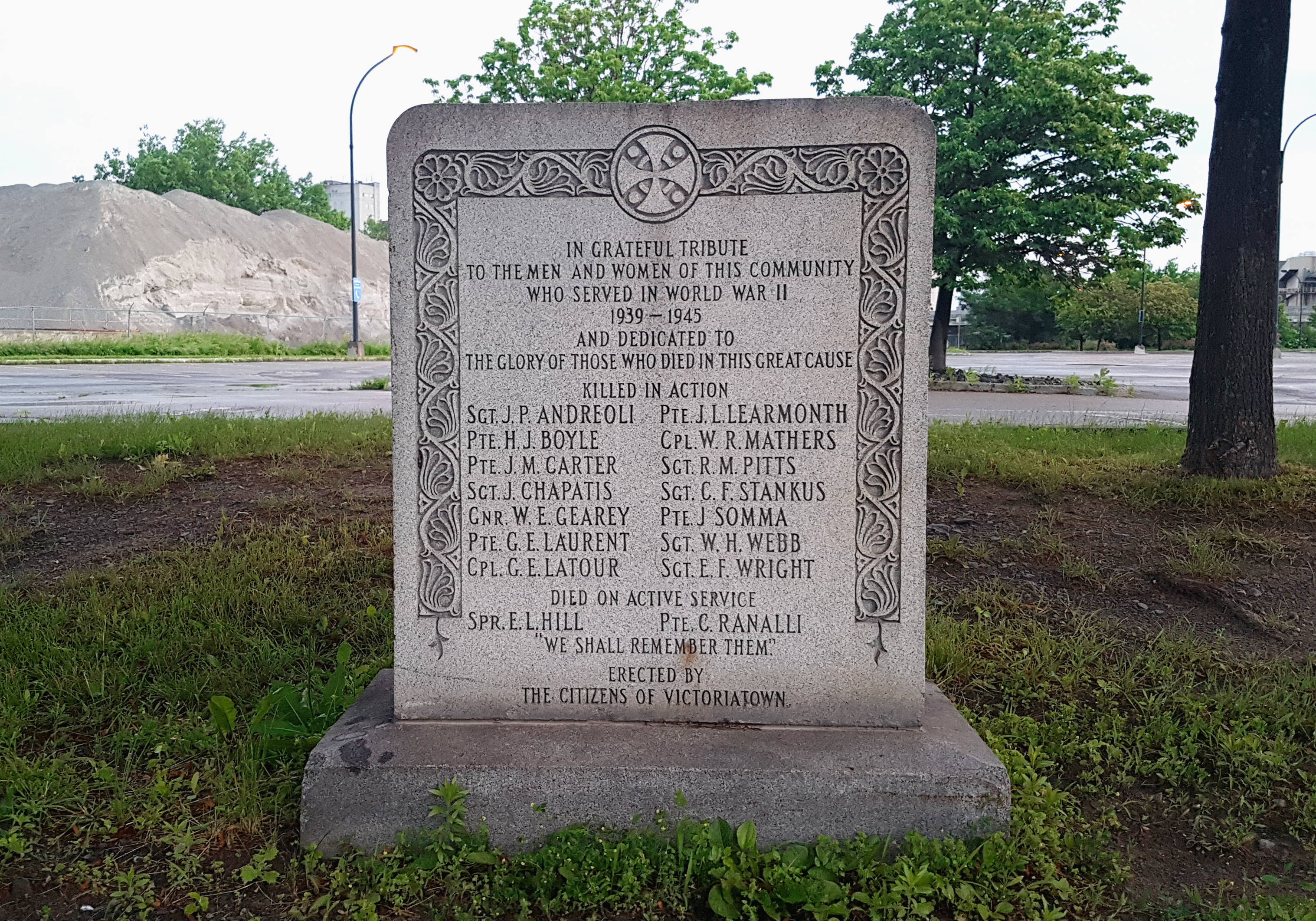 World War II Memorial. Rue Bridge, Montréal, 06-26-2017. In grateful tribute to the men and women of this community who served in World War II 1939-1945 and dedicated to the glory of those who died in this great cause. Killed in action Sgt. J. P. Andreoli Pte. H. J. Boyle Pte. J. M. Carter Sgt. J. Chapatis Pte. G. E. Laurent Cpl. G. E. Latour Pte. J. L. Learmonth Cpl. W. R. Mathers Sgt. R. M. Pitts Sgt. C. F. Stankus Pte. J. Somma Sgt. W. H. Webb Sgt. E. F. Wright Died on active service Spr. E. L. Hill Pte. C. Ranalli "We Shall Remember Them" Erected by The Citizens of Victoriatown.